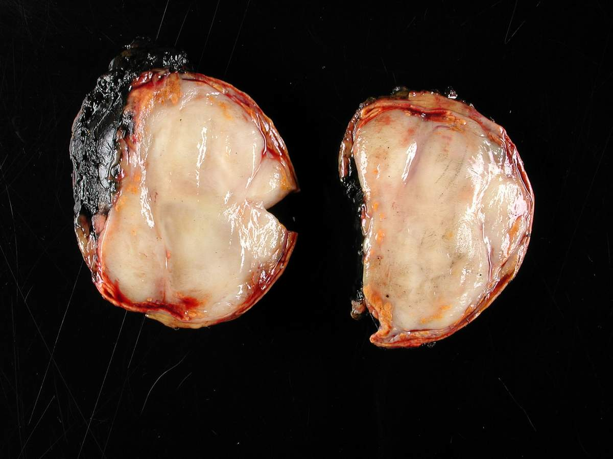 Ganglioneuroma of adrenal gland Gross photograph showing firm white mass in adrenal medulla. Histology showed ganglioneuroma.